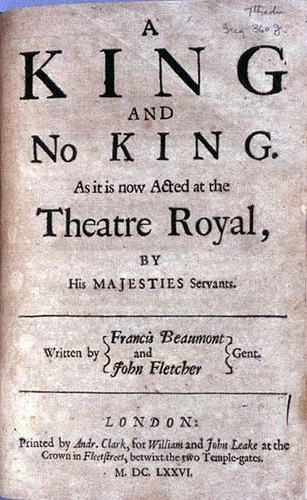 Title page of A King and No King